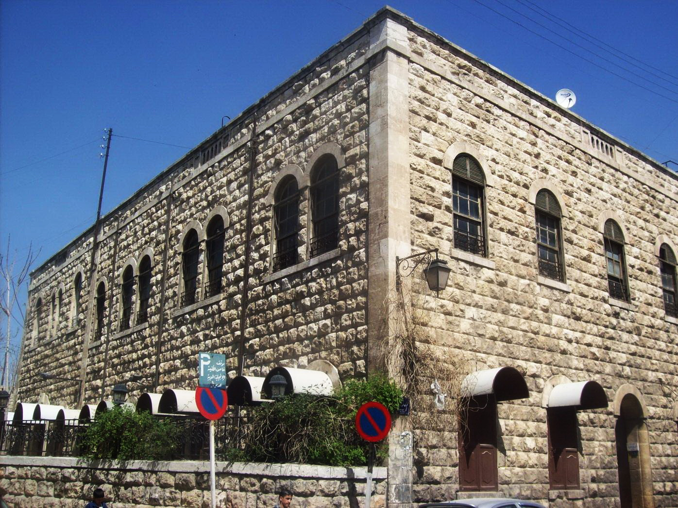 National Evangelical Church of Aleppo, seat of the Arab Presbyterian Evangelical Church of Aleppo, part of the National Evangelical Synod of Syria and Lebanon. Two-thirds of this church was destroyed as a result of an underground explosion on November 6, 2012,[1] perpetuated by the "moderate" rebels.